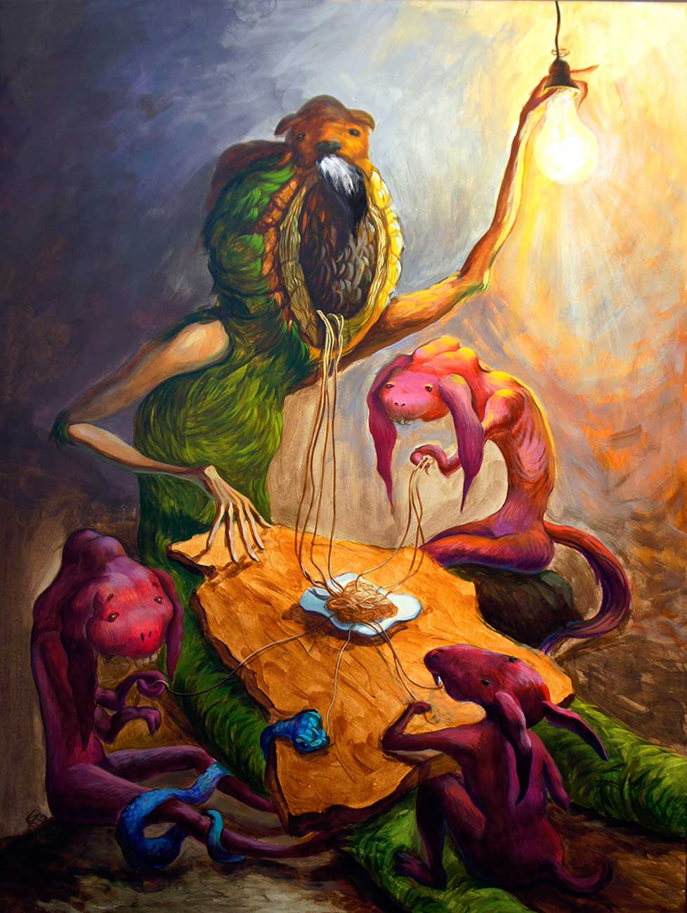 This is a surrealism work by Artist Daria Shcherba. Name is Close the Light, We’re eating Pasta. Visit for more details.